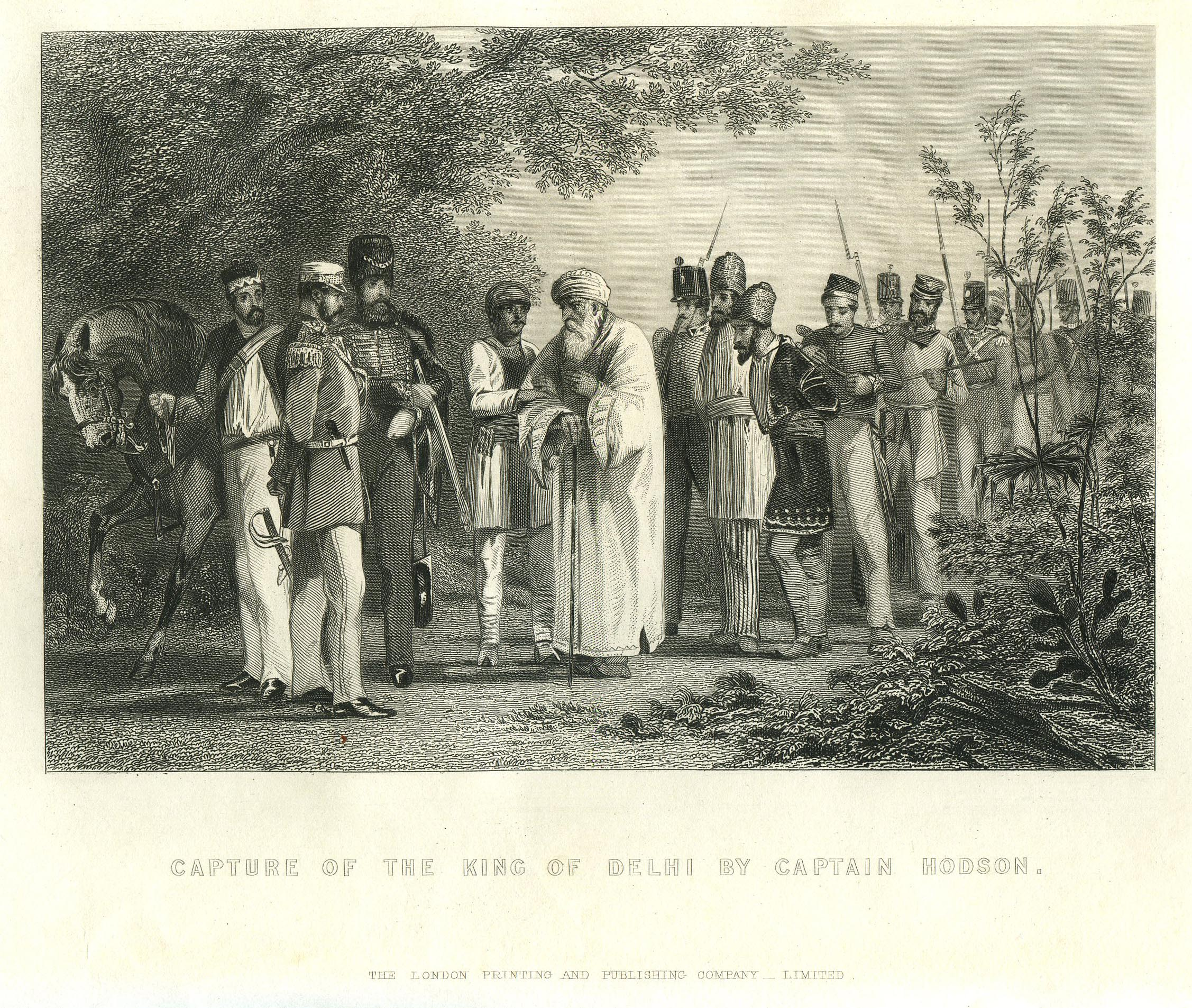 "Capture of the King of Delhi by Captain Hodson", steel engraving. Captain William Hodson captured Bahadur Shah II on 20 September 1857 during the Sepoy Mutiny.